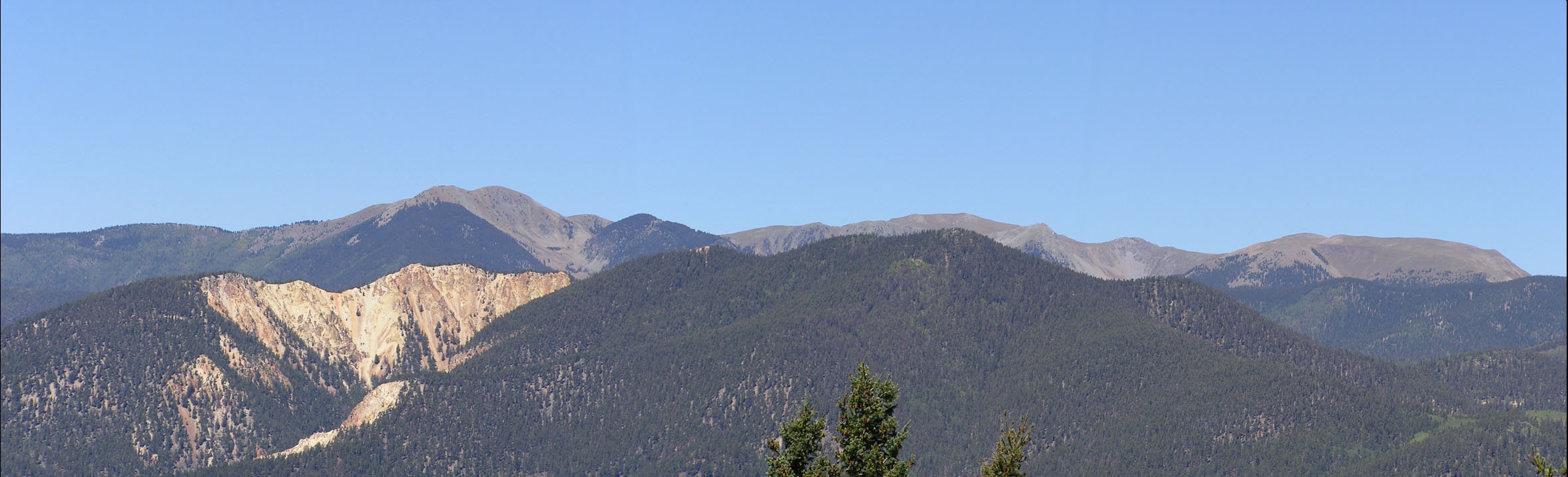 Venado Peak in the Taos Mountains, New Mexico